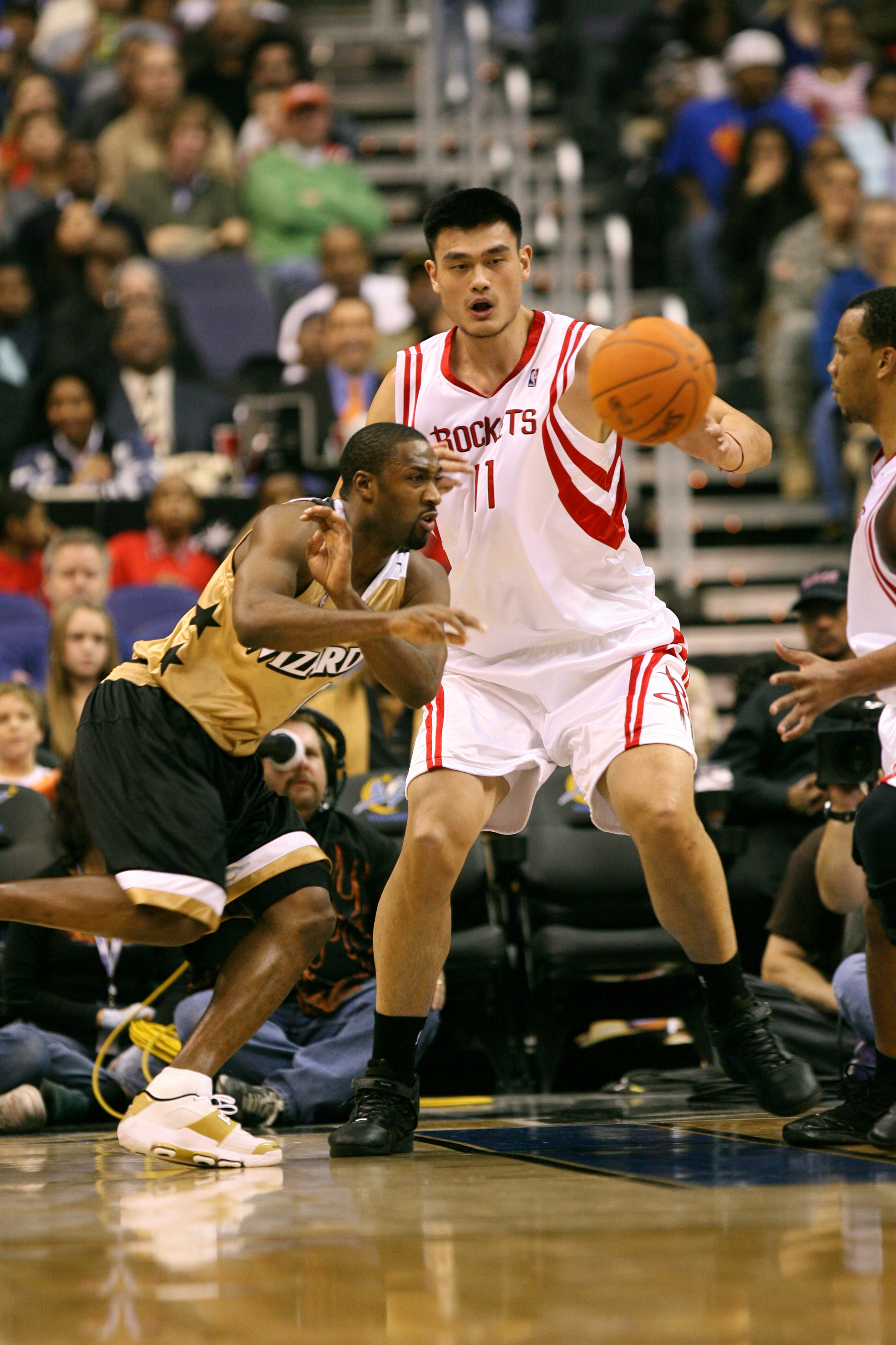 Gilbert Arenas and Yao Ming